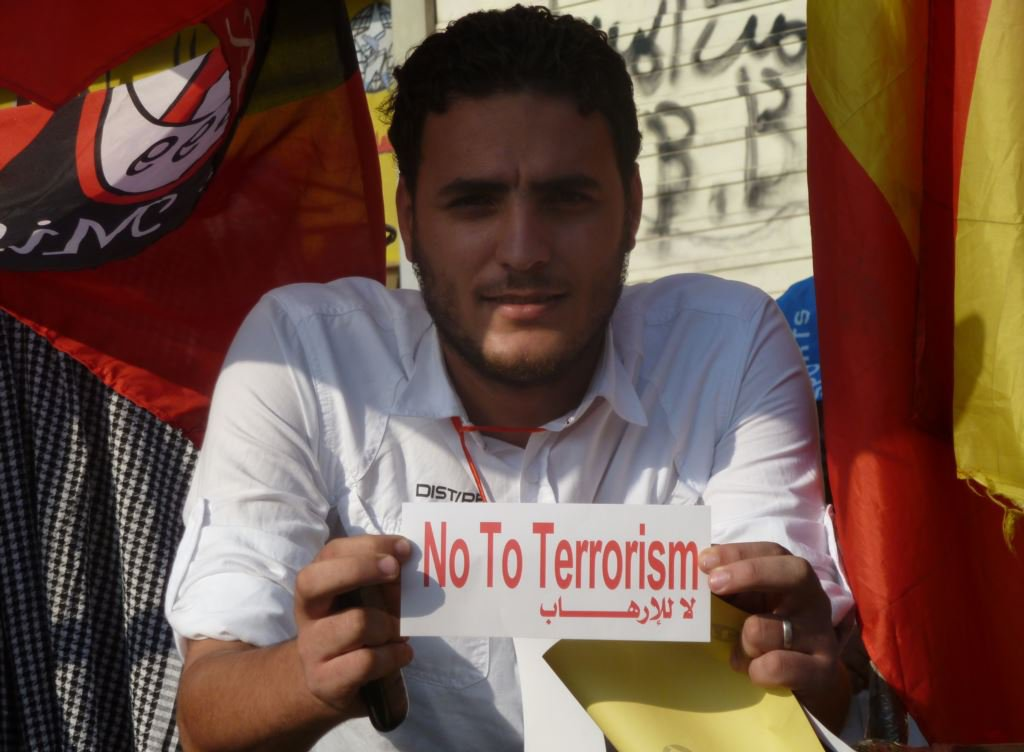 A man in Tahrir Square holds a sticker saying "No To Terrorism" in reference to the Muslim Brotherhood, July 7, 2013.